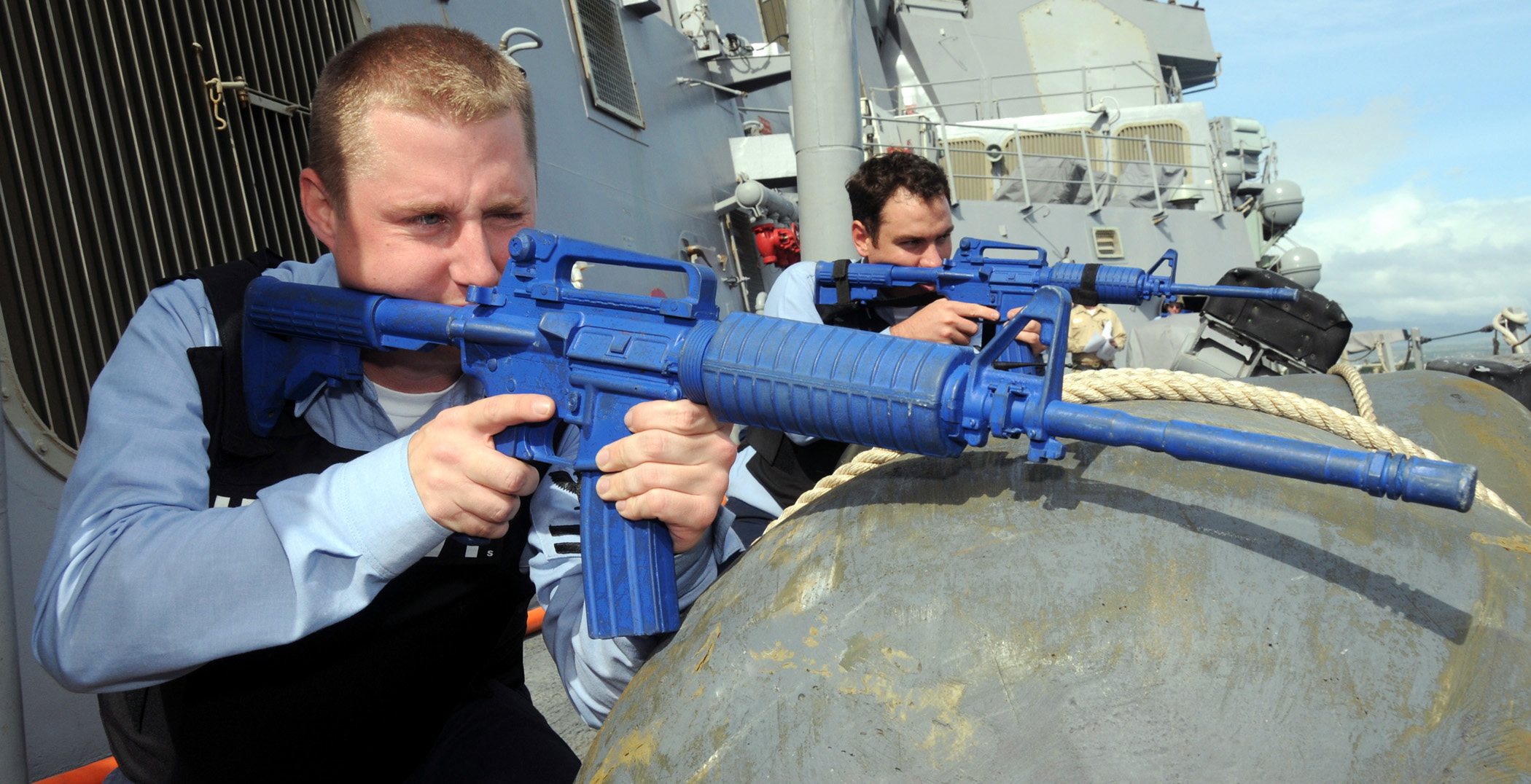 PEARL HARBOR (Feb. 19, 2009) Sonar Technician (Surface) 2nd Class Aaron Wellborn, left, and Sonar Technician (Surface) 2nd Class Kyle Wilcox take a protective posture stance as they aim at a simulated enemy vessel during a small boat attack drill aboard the Pearl Harbor-based guided-missile destroyer USS O'Kane (DDG 77). O'Kane Sailors participated in anti-terrorism force protection drills that included hostage situations, pier penetration and riot control. (U.S. Navy photo by Mass Communication Specialist 2nd Class Michael A. Lantron/Released)